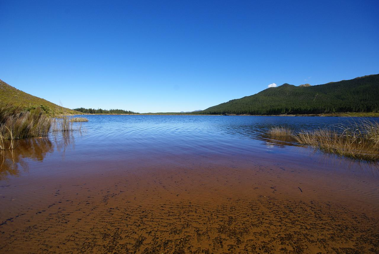 Lake of Theewaterskloof Dam in South Africa betwenn Grabouw and Villiersdorp.